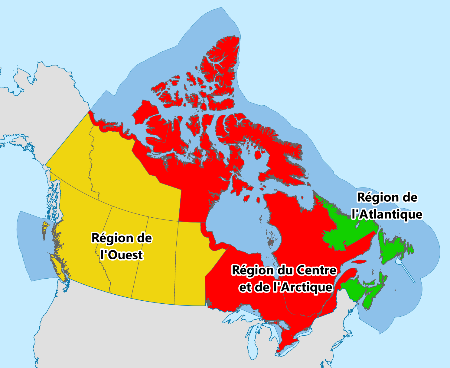 Carte des trois régions de la Garde Côtière Canadienne: la Région de l'Ouest, la Région du Centre et de l'Arctique et la Région de l'Atlantique.